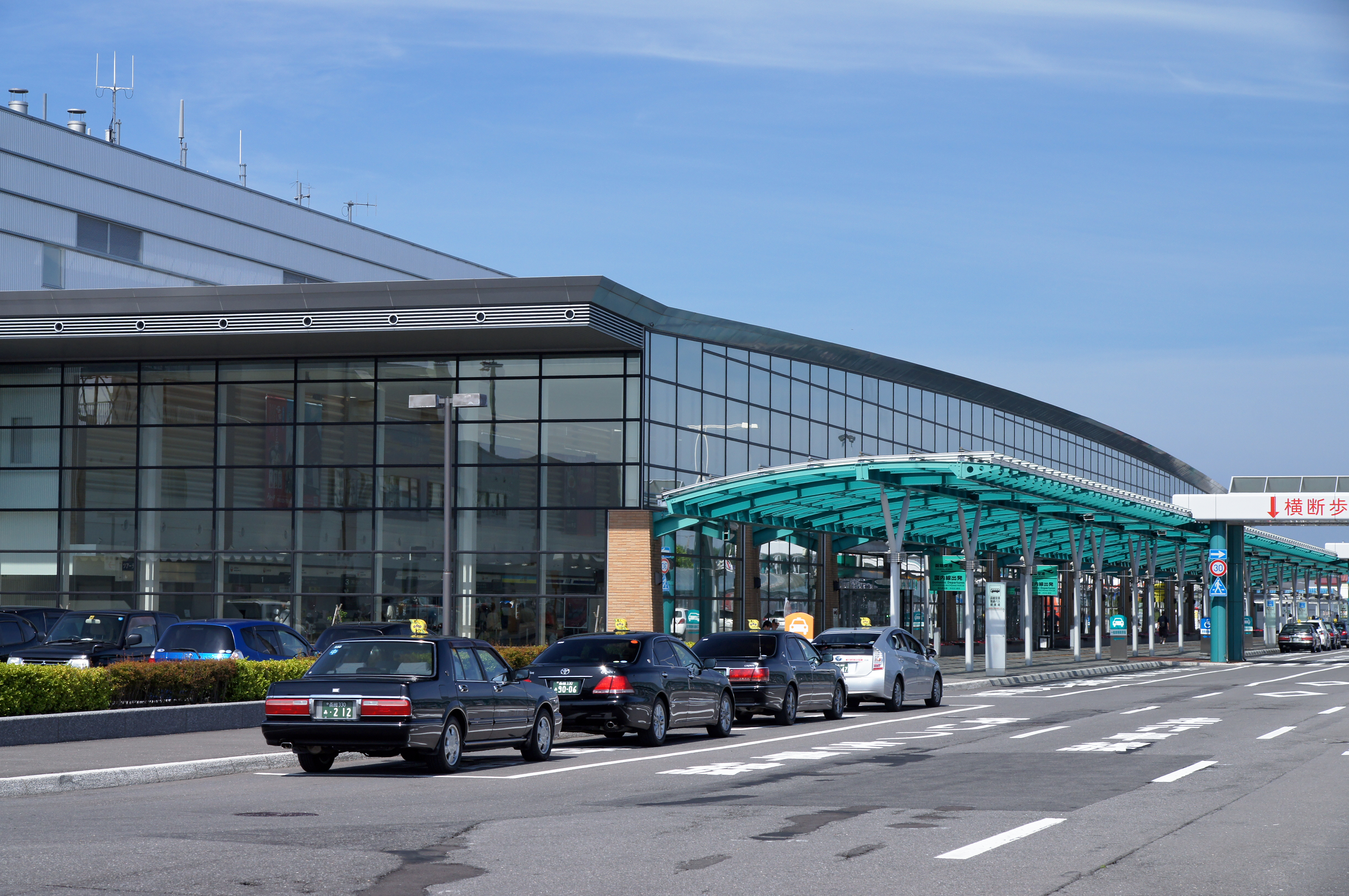 Hakodate Airport in Hakodate, Hokkaido prefecture, Japan